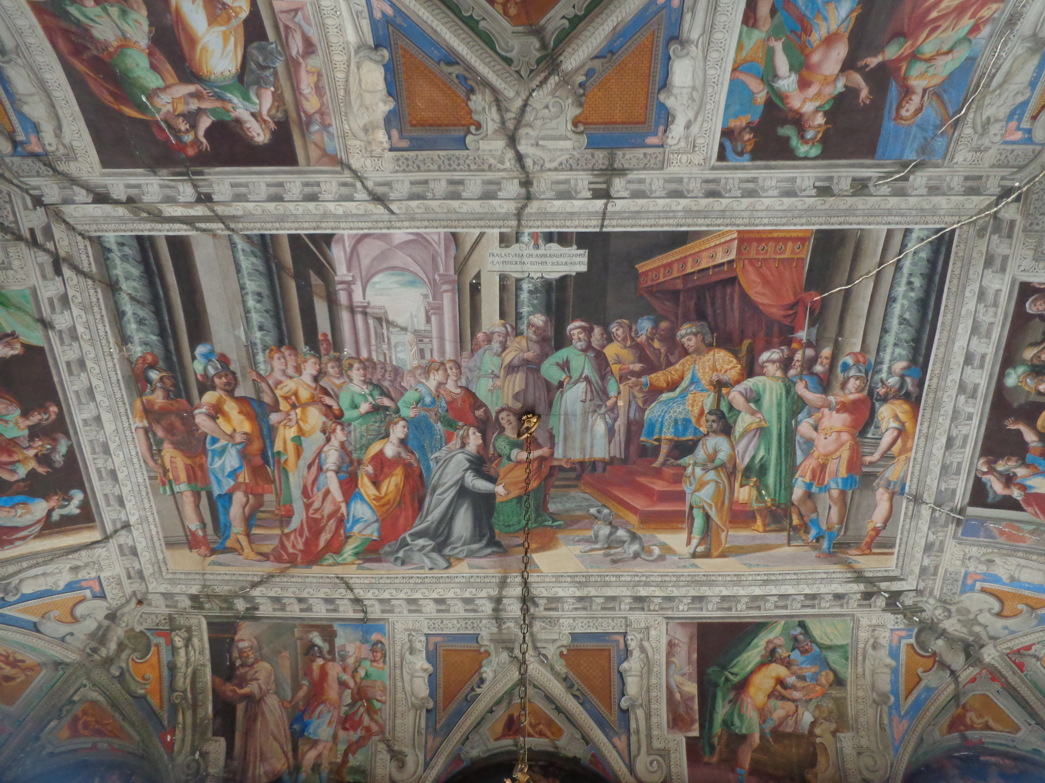 Giacomo Lomellini palace, Genoa